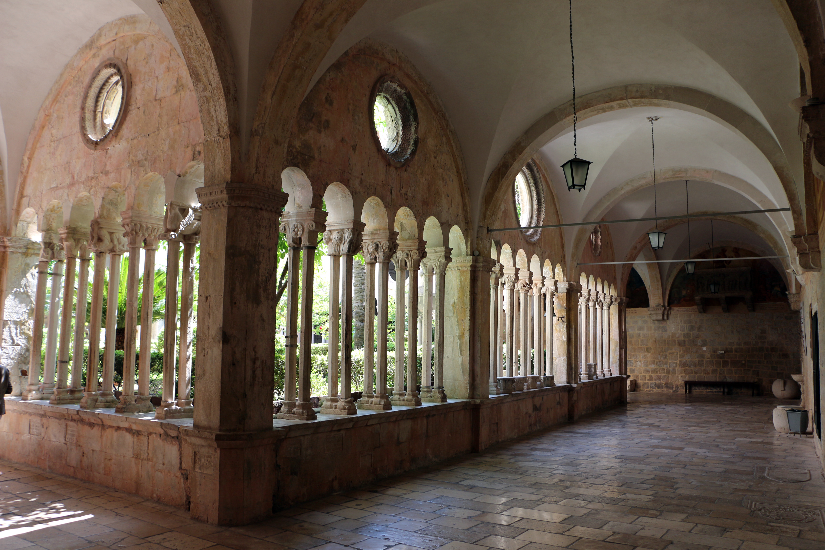 Franciscan Church and Monastery in Dubrovnik